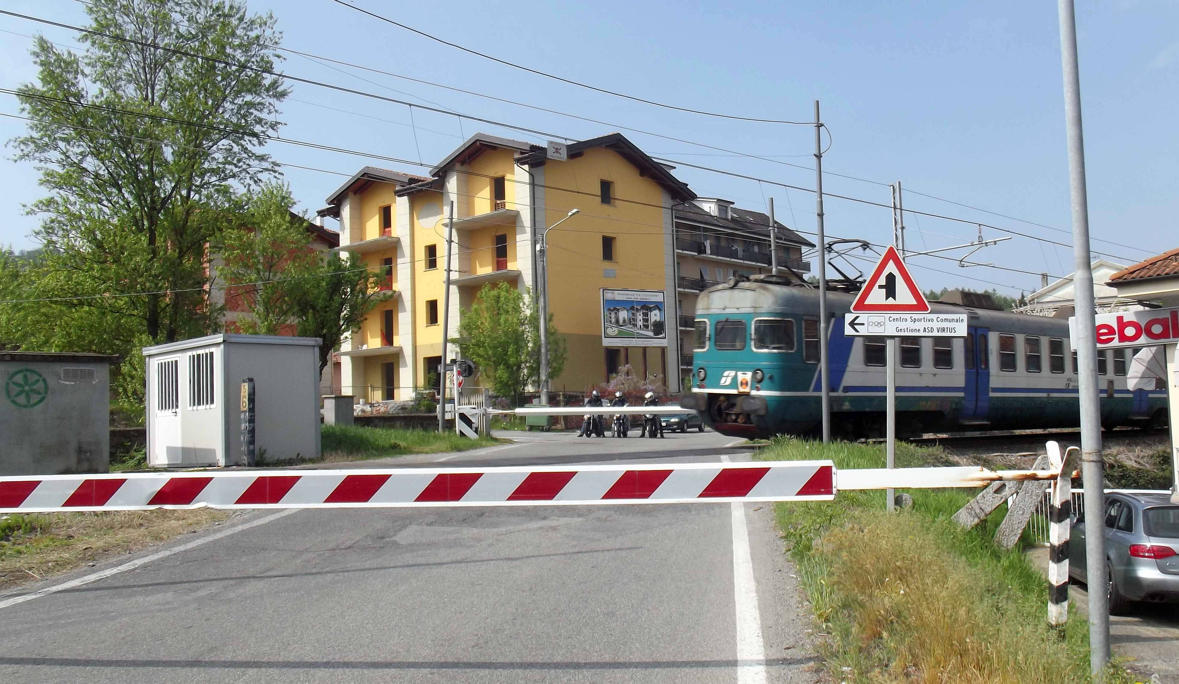 Asti-Genova railway: level crossing in Visone (AL, Italy)